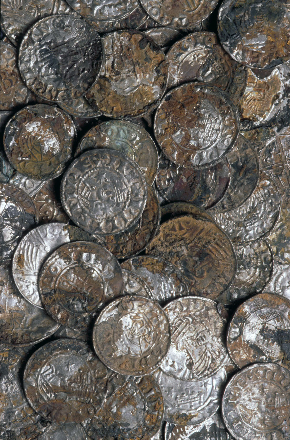 2002T149, Abergavenny area, Wales This was added from the site called under the name portableantiquities. See source for details.